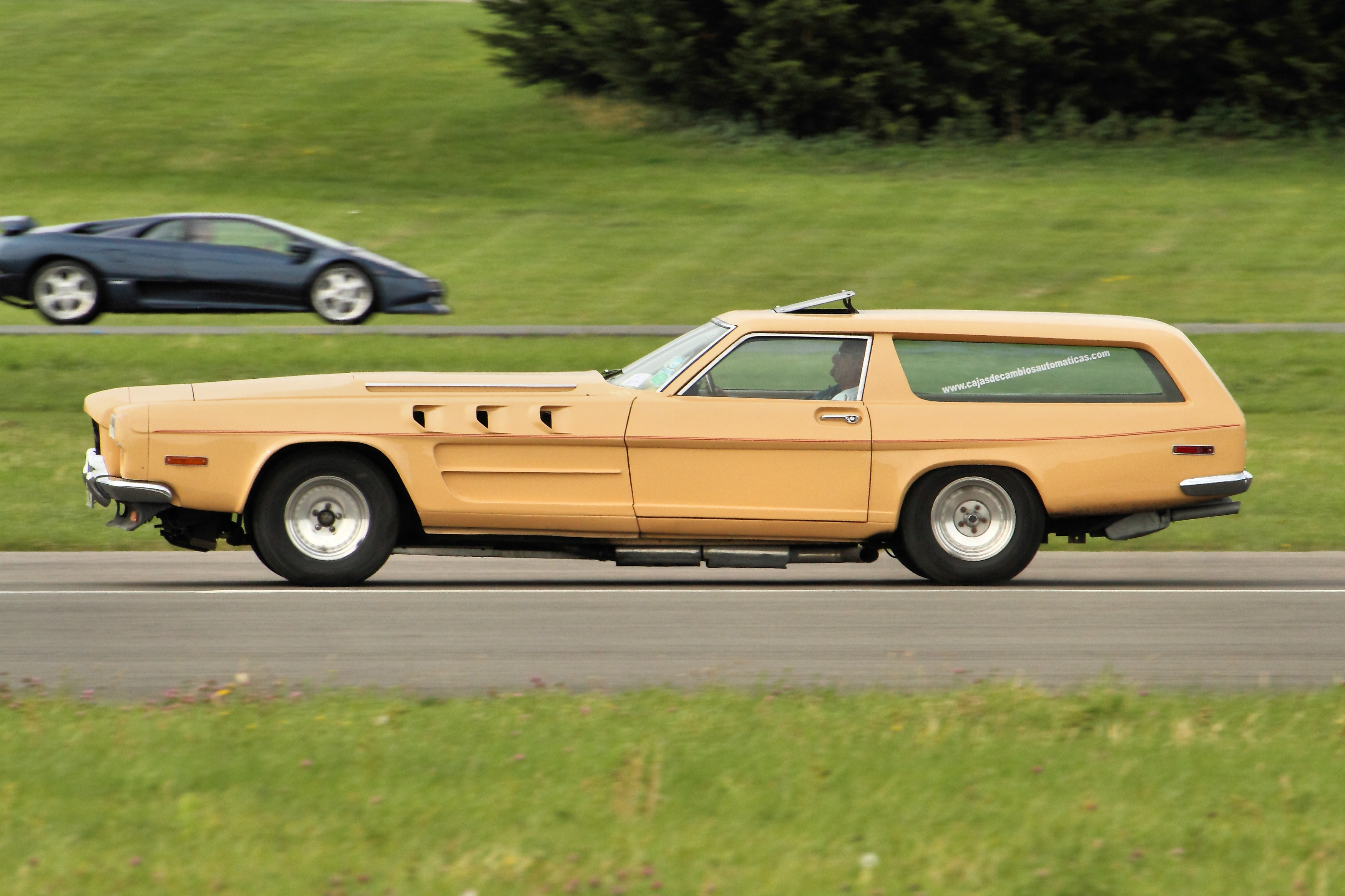 Powered by a 27 litre Merlin engine :-)